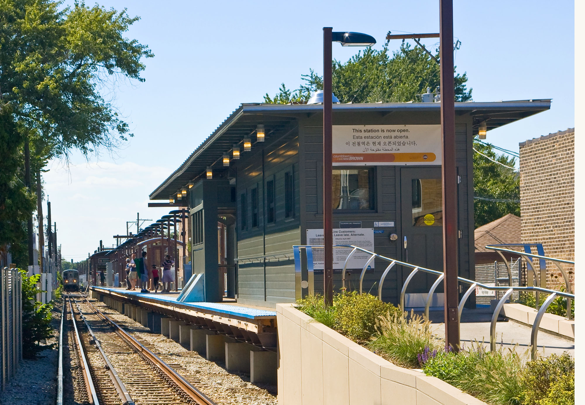 Francisco station on the CTA Brown Line following renovation.